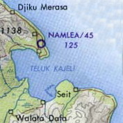 Buru Island (Operational Navigation Chart) original scale 1:1,000,000. Portion of Defense Mapping Agency ONC M-12 1967 (152K) Not for navigational use This image is a copy or a derivative work of from the map collection of the Perry–Castañeda Library (PCL) of the University of Texas at Austin. This tag does not indicate the copyright status of the attached work. A normal copyright tag is still required. See Commons:Licensing for more information.